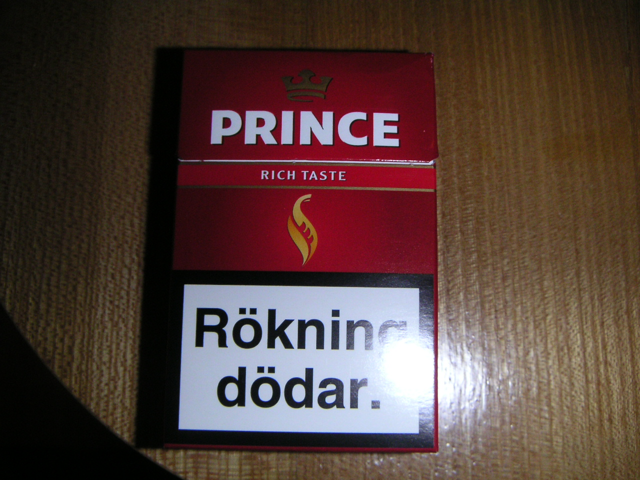 Prince Rich Taste